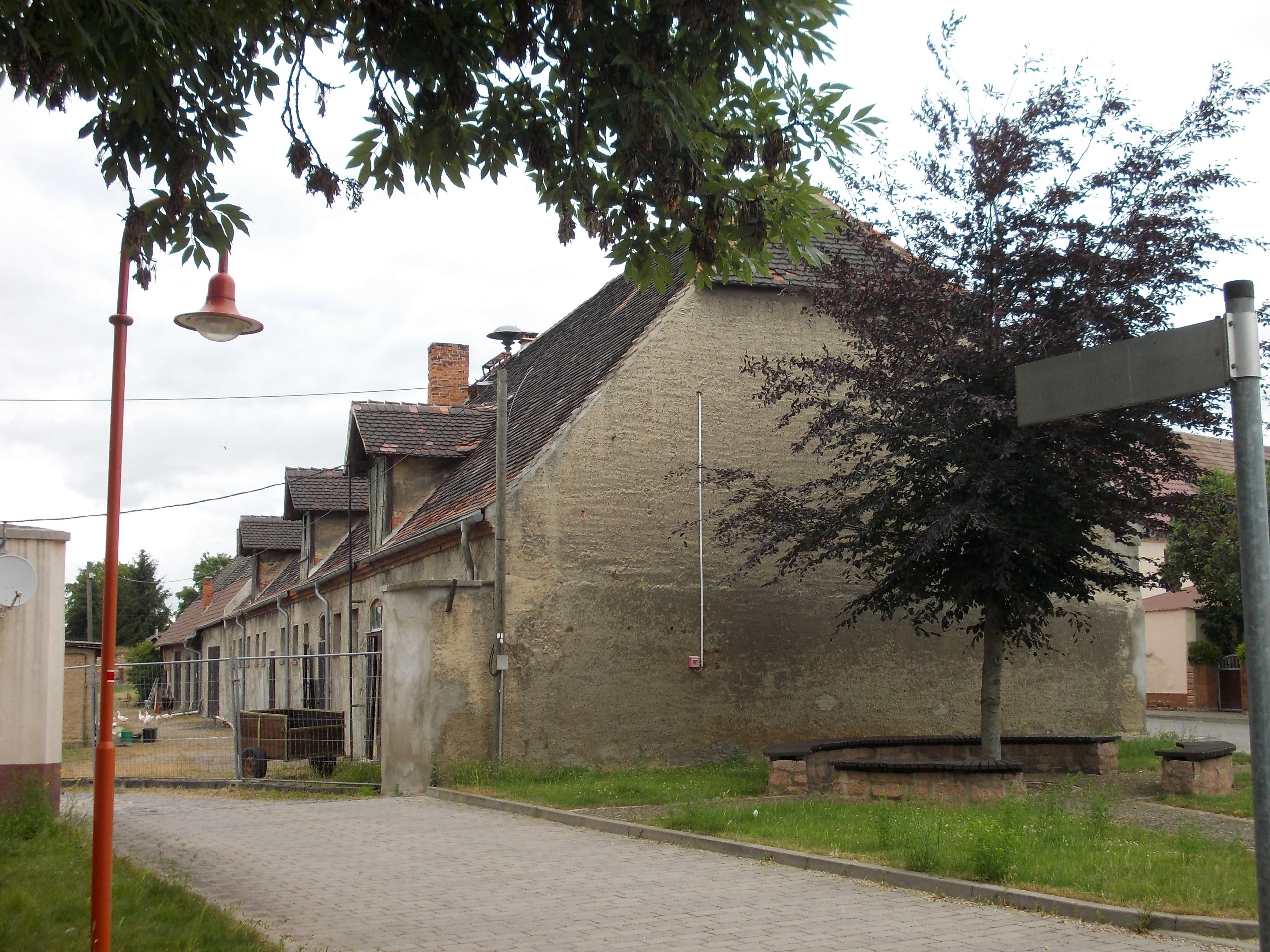 Kriegsdorf estate in Saxony-Anhalt. The village is called Friedensdorf since 1950 and belongs today to the town of Leuna.